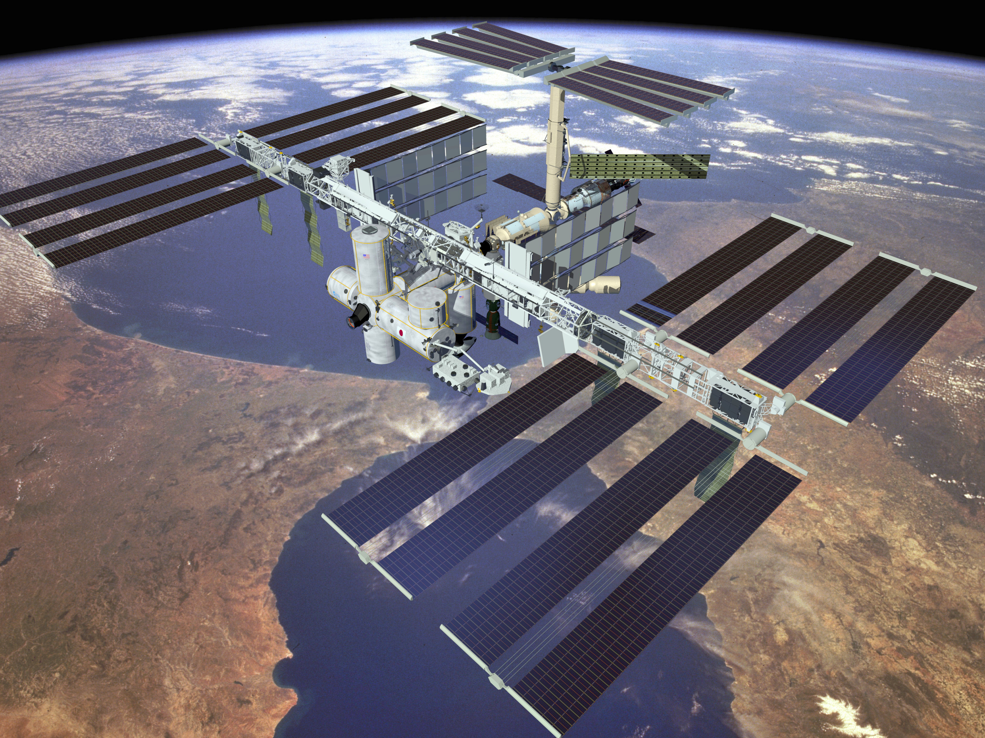 This digital artist's concept shows the (original planned configuration of the) International Space Station passing above the straits of Gibraltar and the Mediterranean Sea after all assembly is completed in 2003. The completed station will be powered by almost an acre of solar panels and have a mass of almost 1 million pounds. The pressurized volume of the station will be roughly equivalent to the space inside two jumbo jets. Station modules will be provided by the U.S., Russia, Europe and Japan. Canada will provide a mechanical arm and "Canada hand." In total, 16 countries are cooperating to provide a state-of-the-art complex of laboratories in the weightless environment of Earth orbit. The first piece of the station is scheduled to launch in June 1998, beginning a challenging five-year, 45-flight sequence of assembly in orbit.